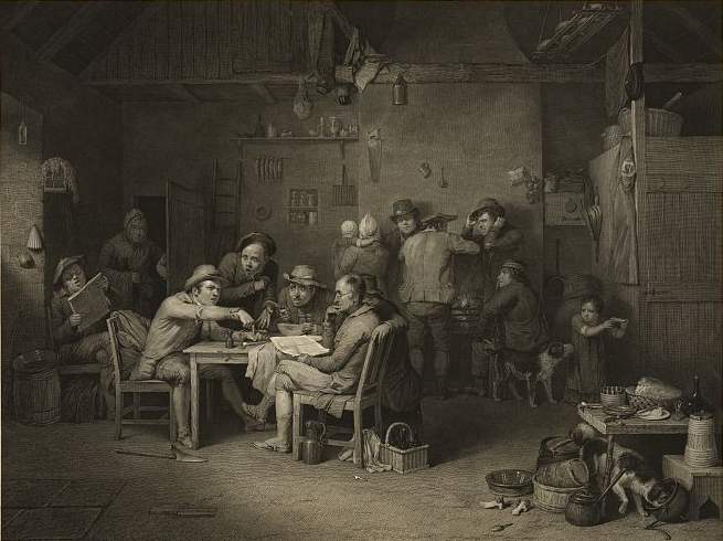 Village Politicians. Etching by English engraver Abraham Raimbach (1776-1843) after David Wilkie (1785-1841).